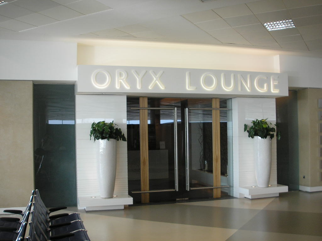 The Oryx lounge at Doha International Airport.